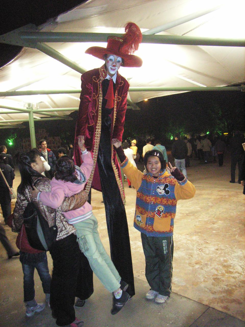 廣州番禺長隆歡樂世界長隆大馬戲